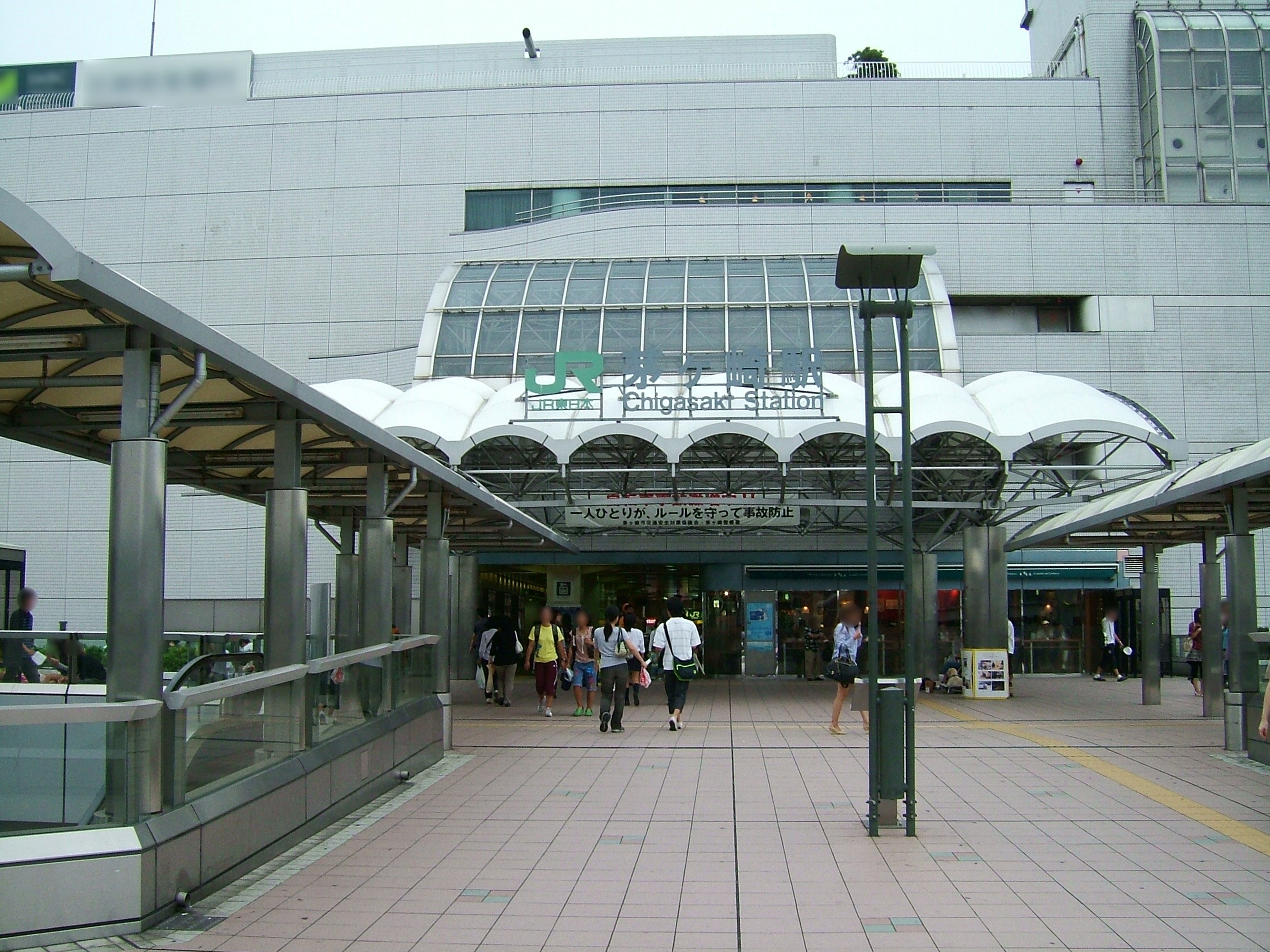 Chigasaki Station north entrance (East Japan Railway Tōkaidō Main Line, Sagami Line)